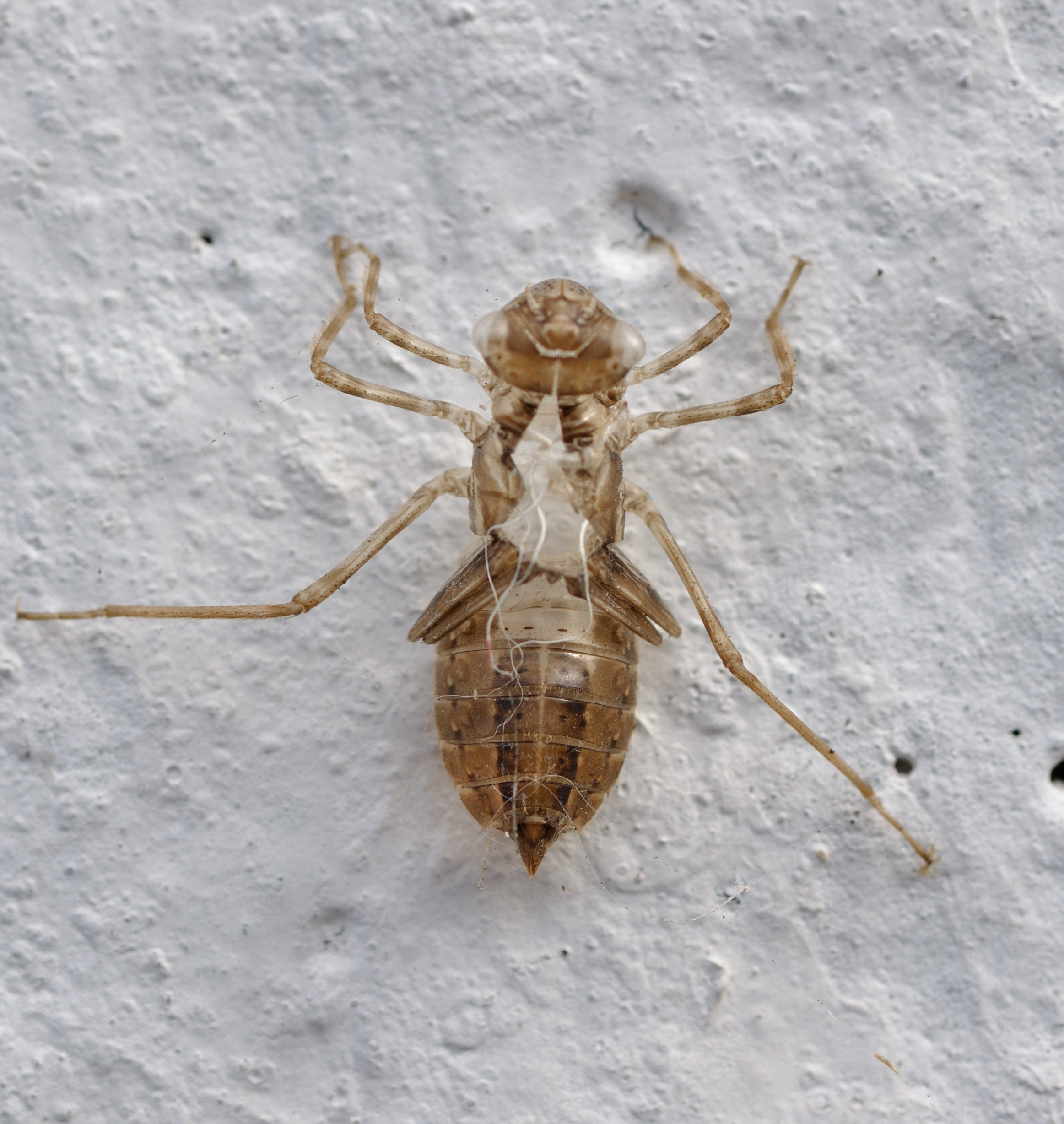 Exuvia of a Red-veined darter (Sympetrum fonscolombii) in Puerto de la Cruz, Tenerife, Spain.